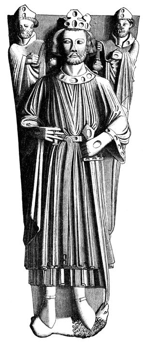 Effigy of King John on his monument in Worcester Cathedral